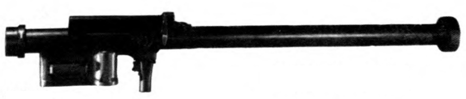 Stinger weapon system early design, which differs from its later models (Block I, Block II, Block III mods), with expandable launcher with fully-molded non-detachable aiming device and other fire-and-discard features